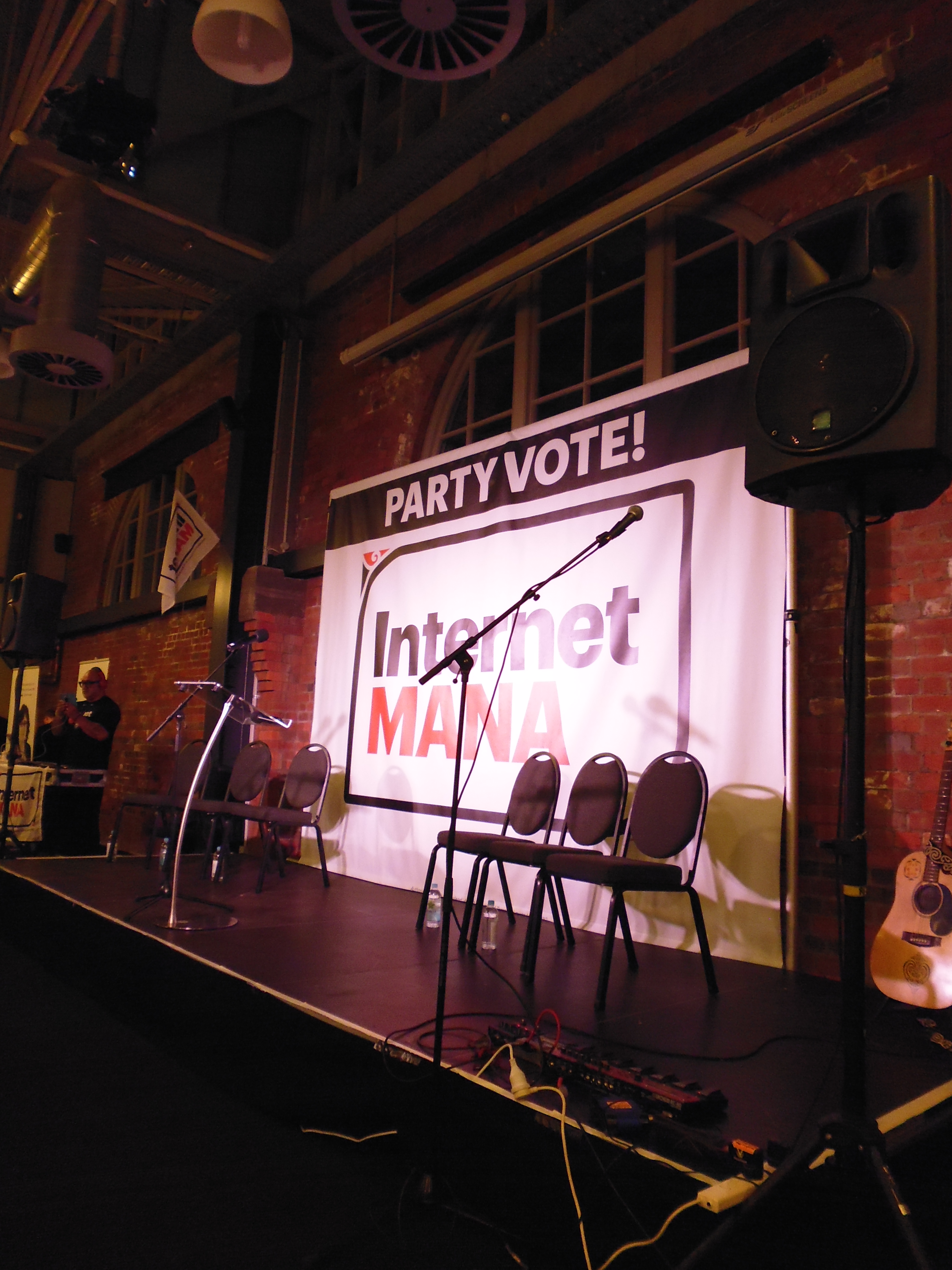 Photo taken at a rally held by the Internet Mana Party on 4 August 2014. The rally was part of a nationwide tour.